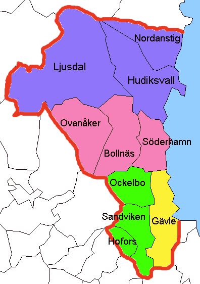 electional division of gavleborg county